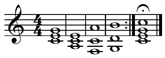 Staff notation of the typical 50s progression used in western popular music.